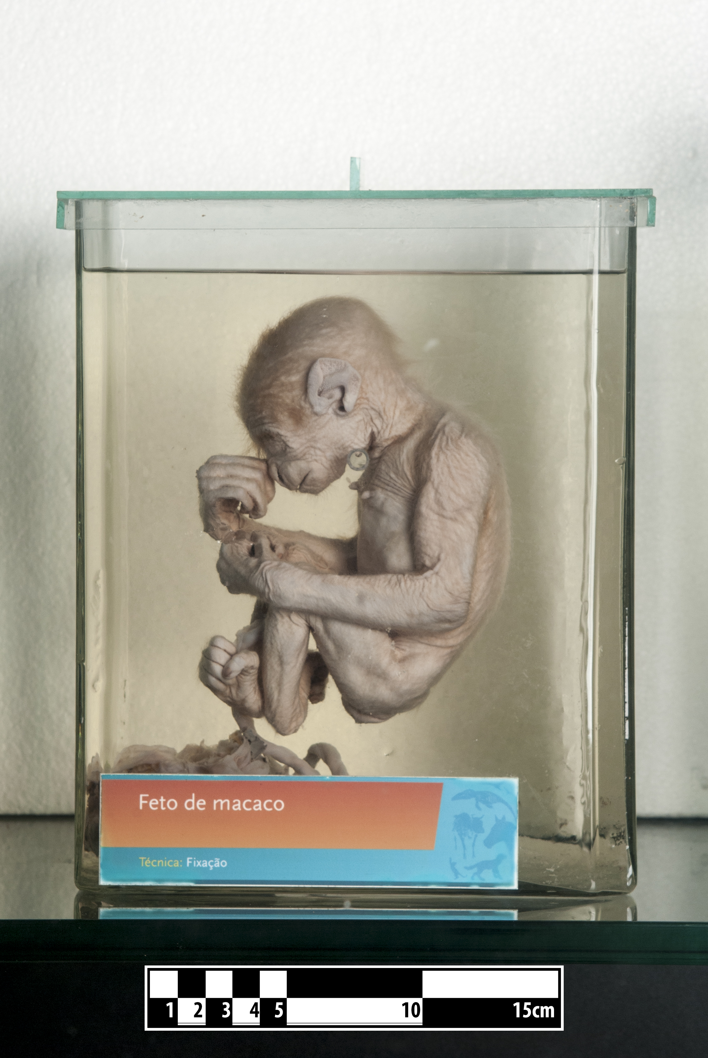 Monkey fetus. Primata Technique of formalin fixation on display at the Museum of Veterinary Anatomy, FMVZ USP. This file was published as the result of a partnership between the Museum of Veterinary Anatomy FMVZ USP, the RIDC NeuroMat and the Wikimedia Community User Group Brasil. This GLAM project is reported.